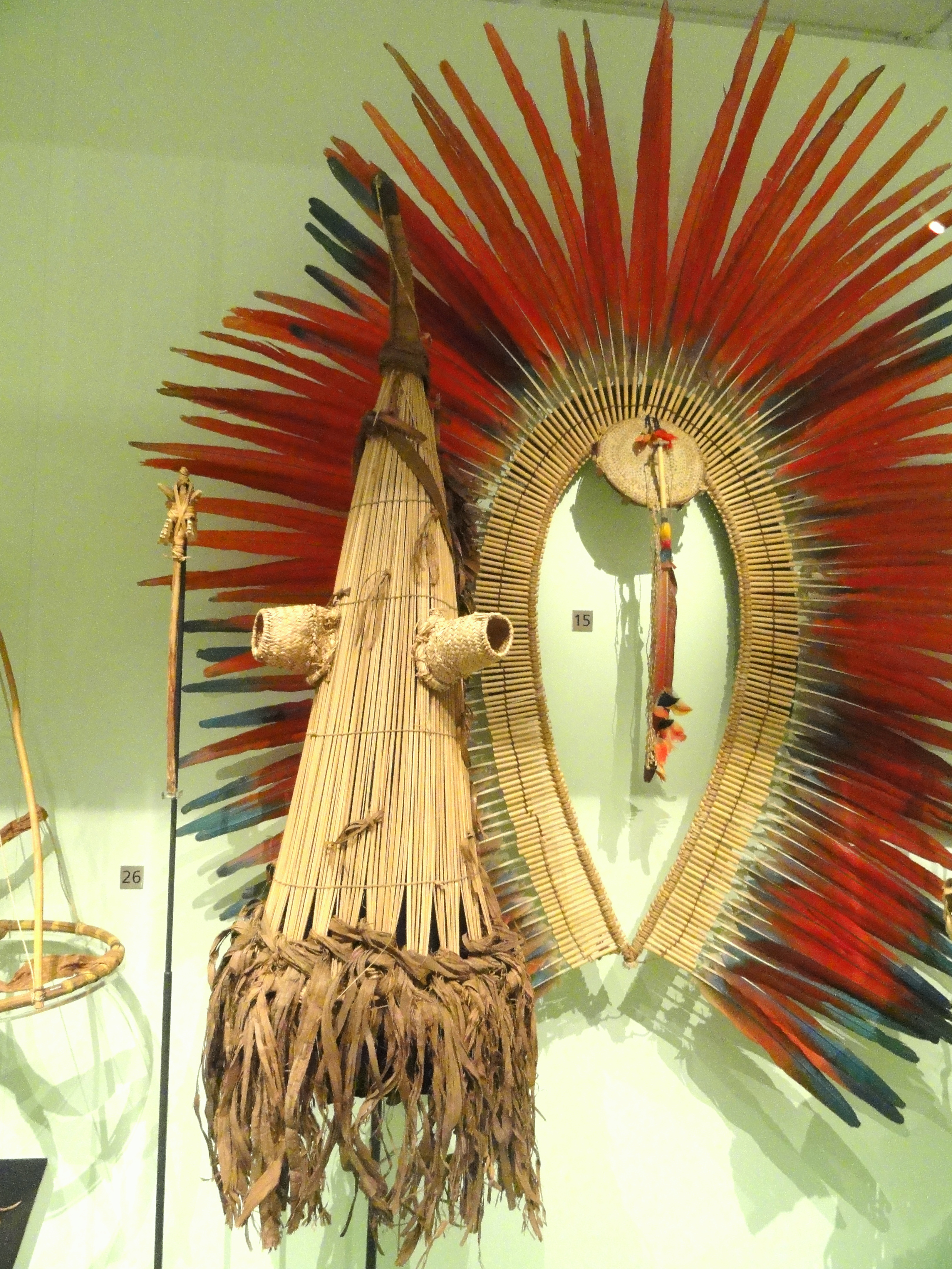 Exhibit in the Royal Ontario Museum, Toronto, Ontario, Canada. This exhibit is old enough so that it is in the public domain, and photography was permitted in the museum. I took this photograph and release it into the public domain.